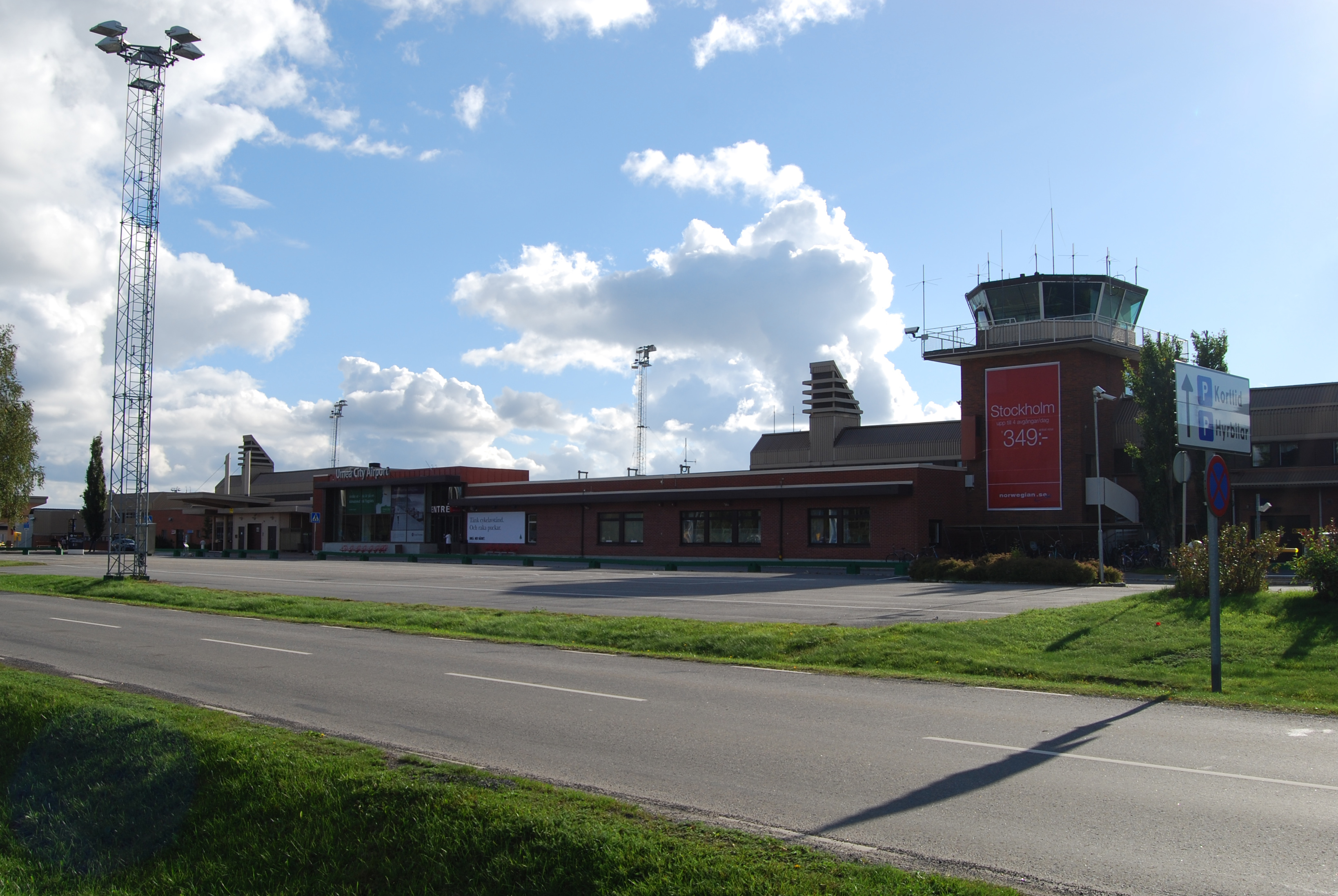 Umeå City Airport